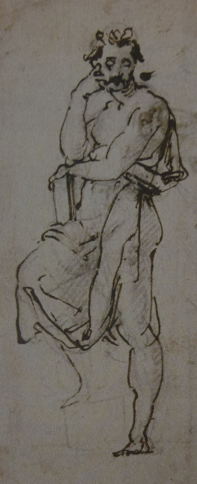 Michelangelo. Study for a figure of a man; pen and ink; 201x78 mm; Louvre Paris